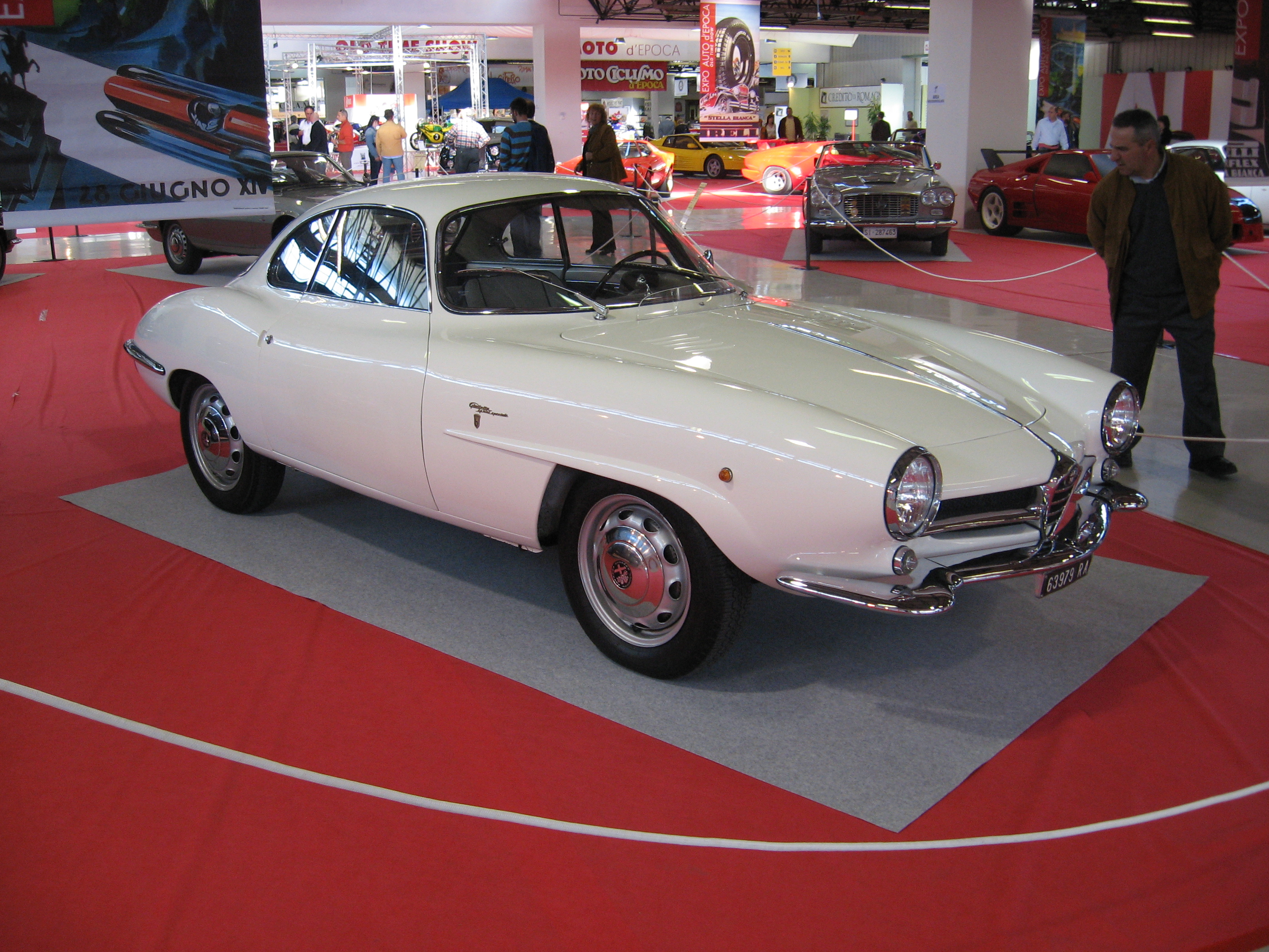 This photo shows an Alfa Romeo Giulietta Sprint Speciale Author:Luc106 Date:18th march 2007 Place:Forlì (Italy) Event:Old Time Show I release all rights in the public domain.